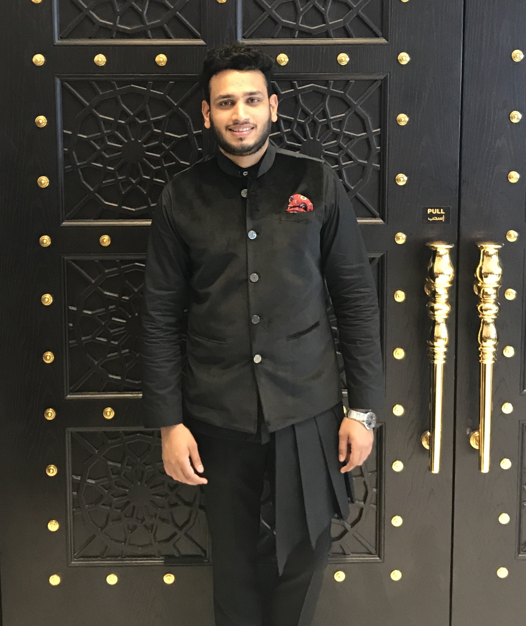 Show Director Lokesh Sharma at an event